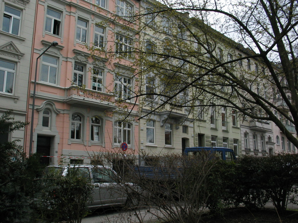 Photo by Gregory Kats (myself) Some of the elegant looking and very quiet streets in the city center.